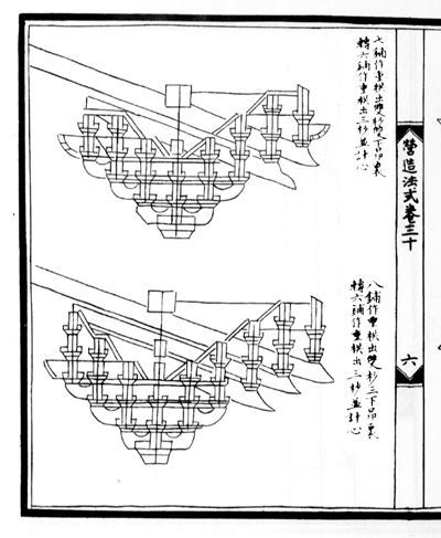 Dougong diagram from Song dynasty Yingzao Fashi 宋营造法铺作图